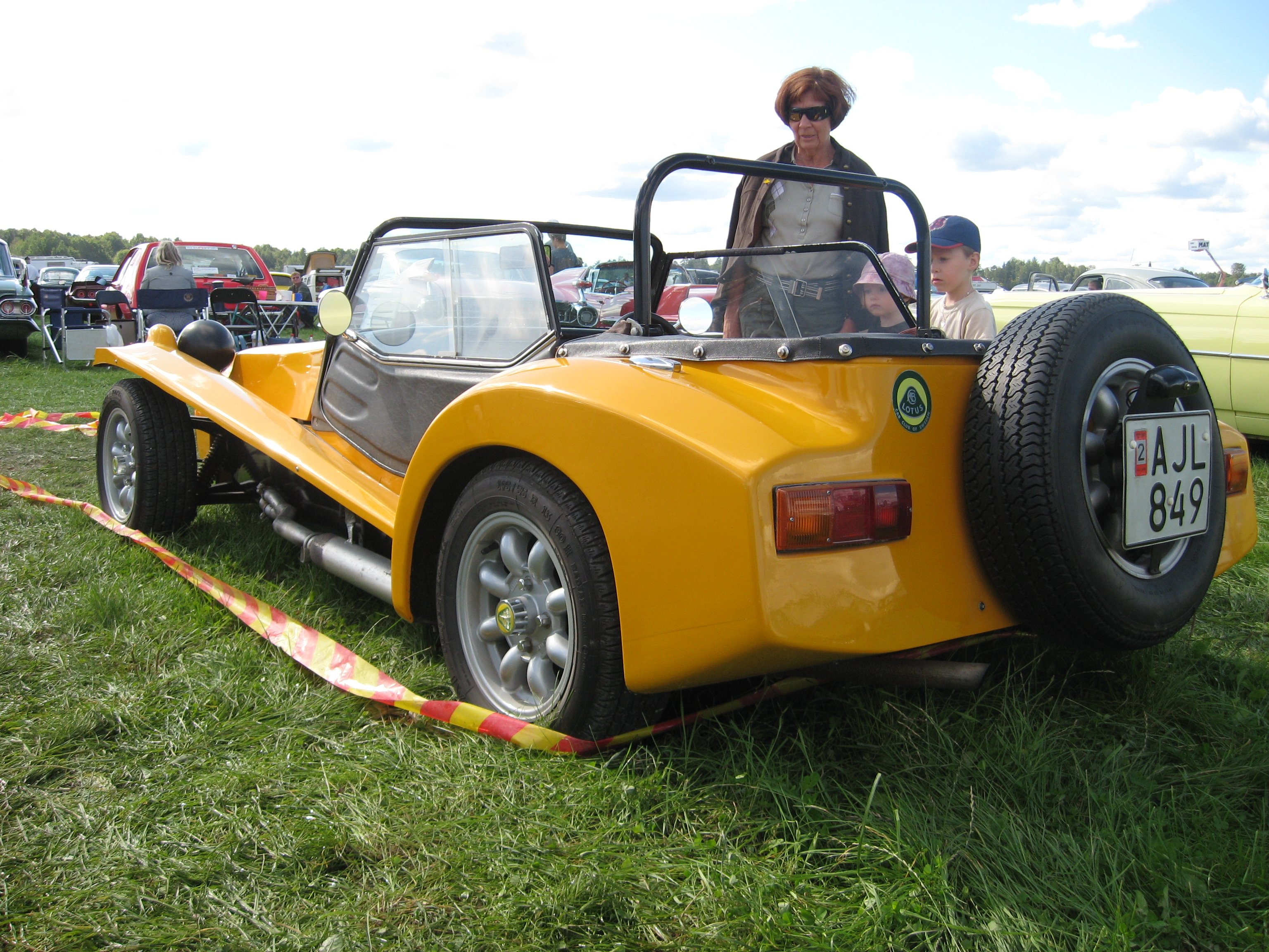 Lotus 7 Series 4